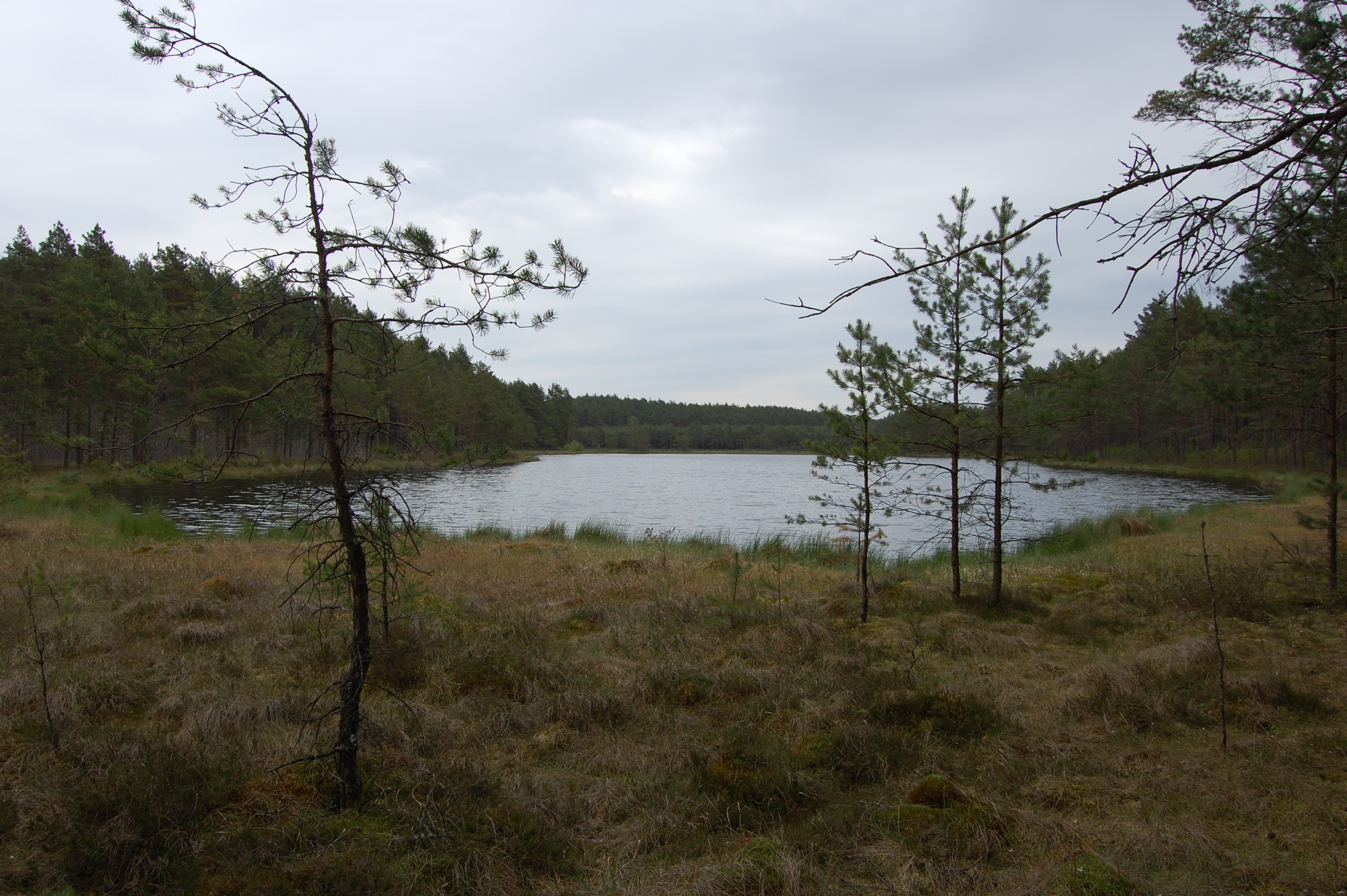 Motowęże lake